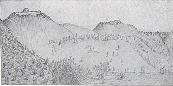 Sketch of the central part of Mono Craters